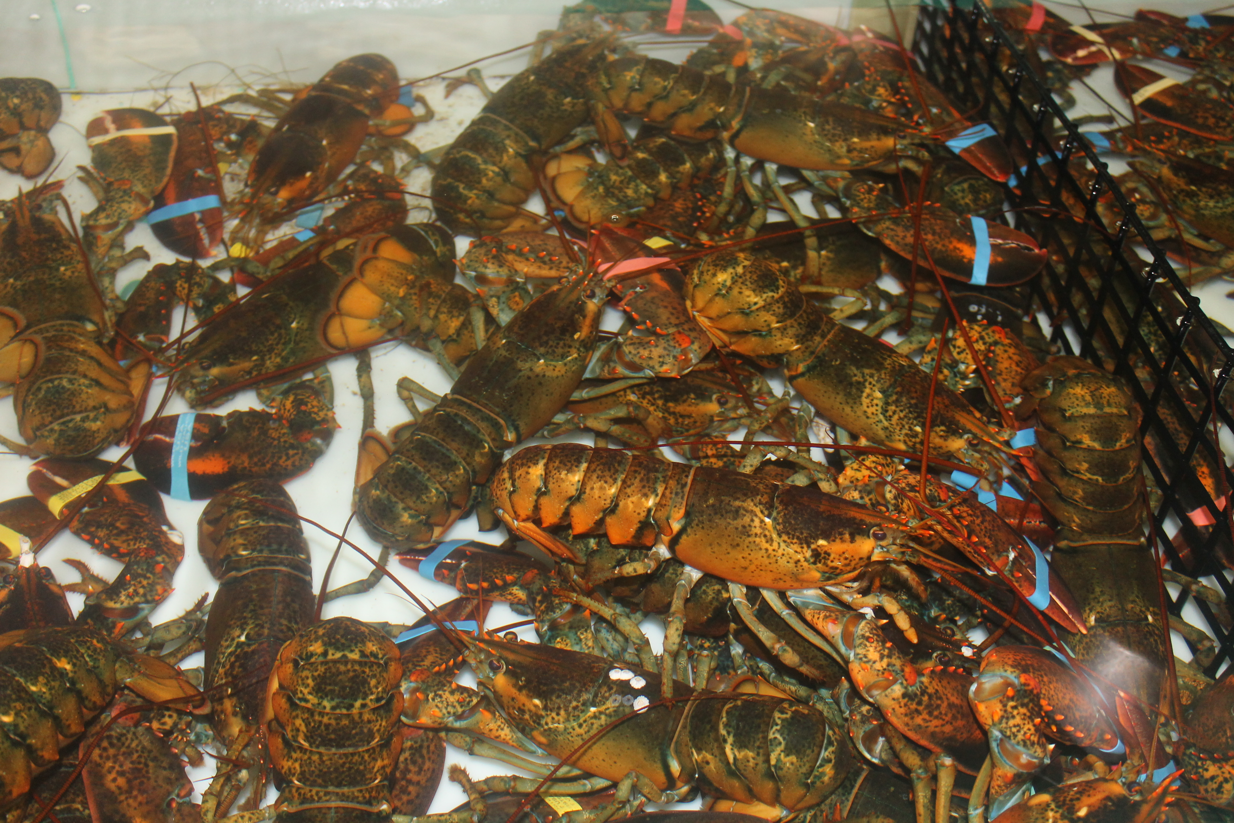 I took photo of lobsters awaiting purchase in Trenton, ME, with Canon camera.